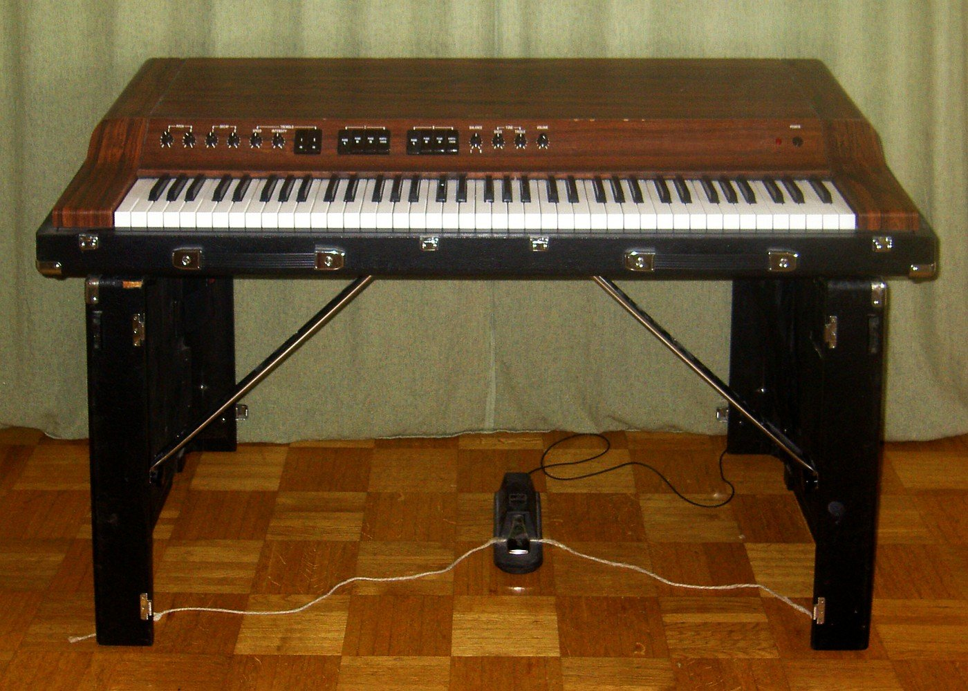 Yamaha CP-30 ready for playing.